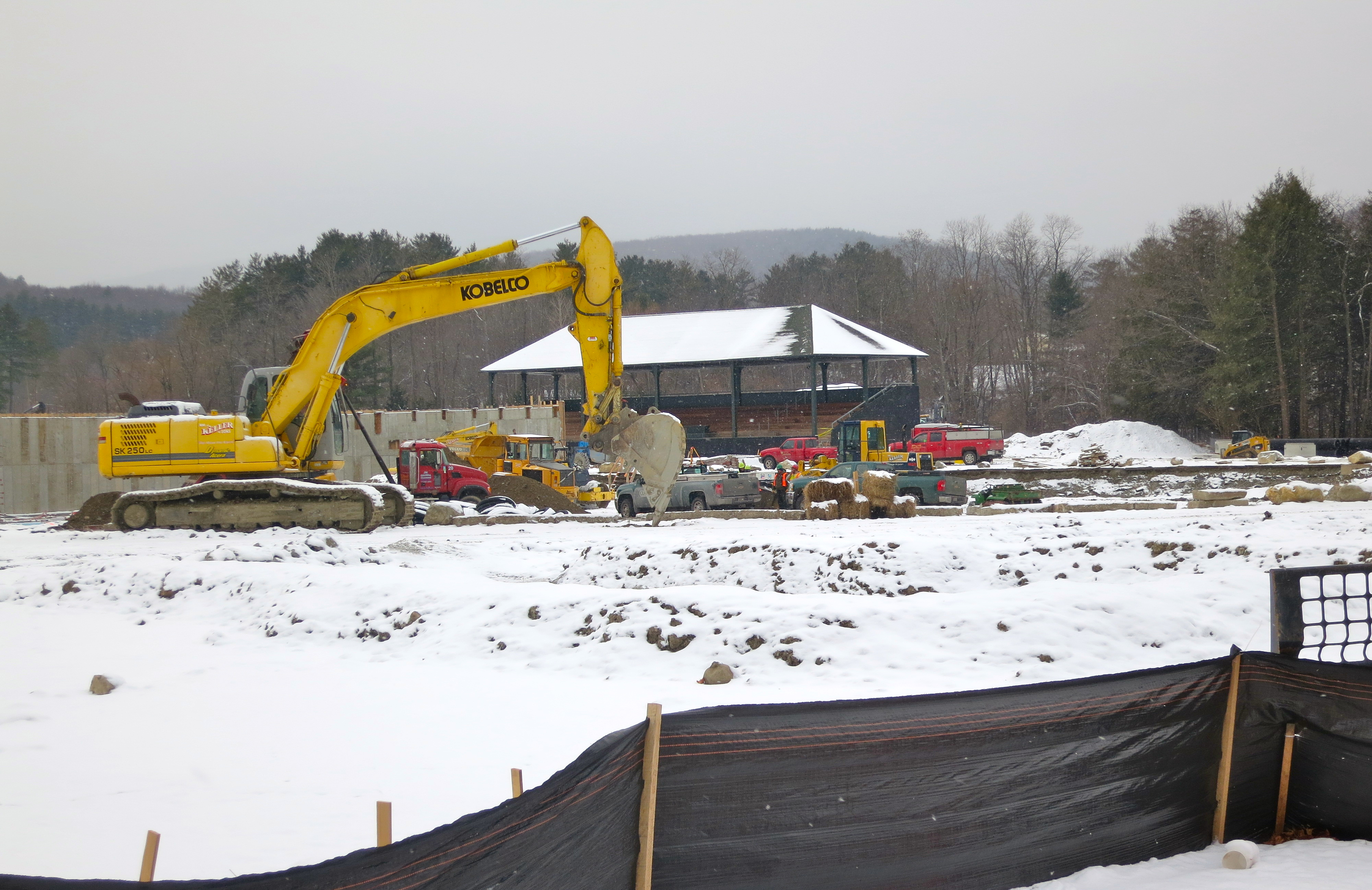 rnovation of Weston Athletic Complex